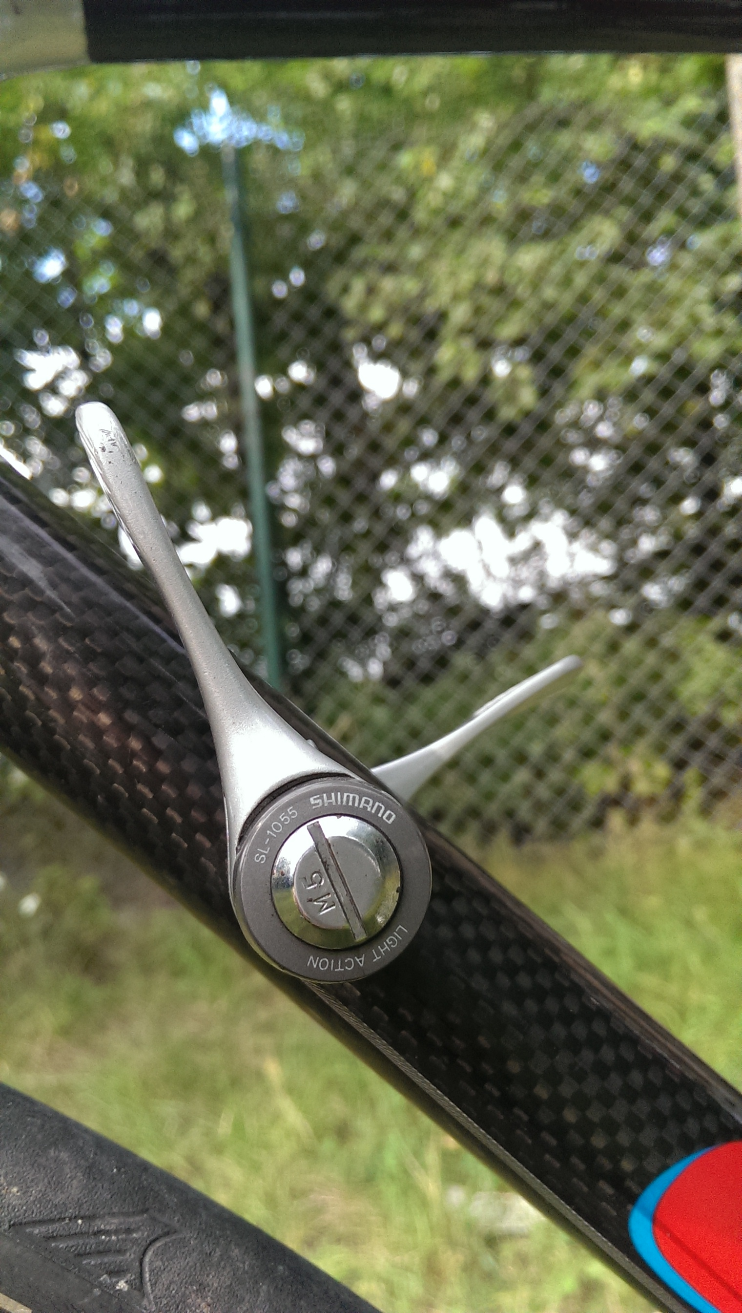 Shimano 105 1055SC downtube shifters